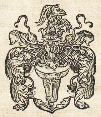 Półkozic coat of arms by B. Paprocki, published in "Gniazdo cnoty.."